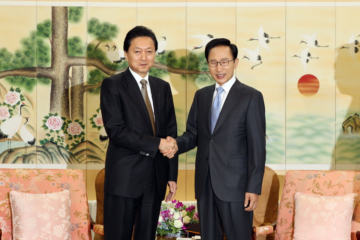 President Lee Myung-bak and visiting Japanese Prime Minister Yukio Hatoyama holding a summit meeting in Jeju Island on Saturday (May 29).